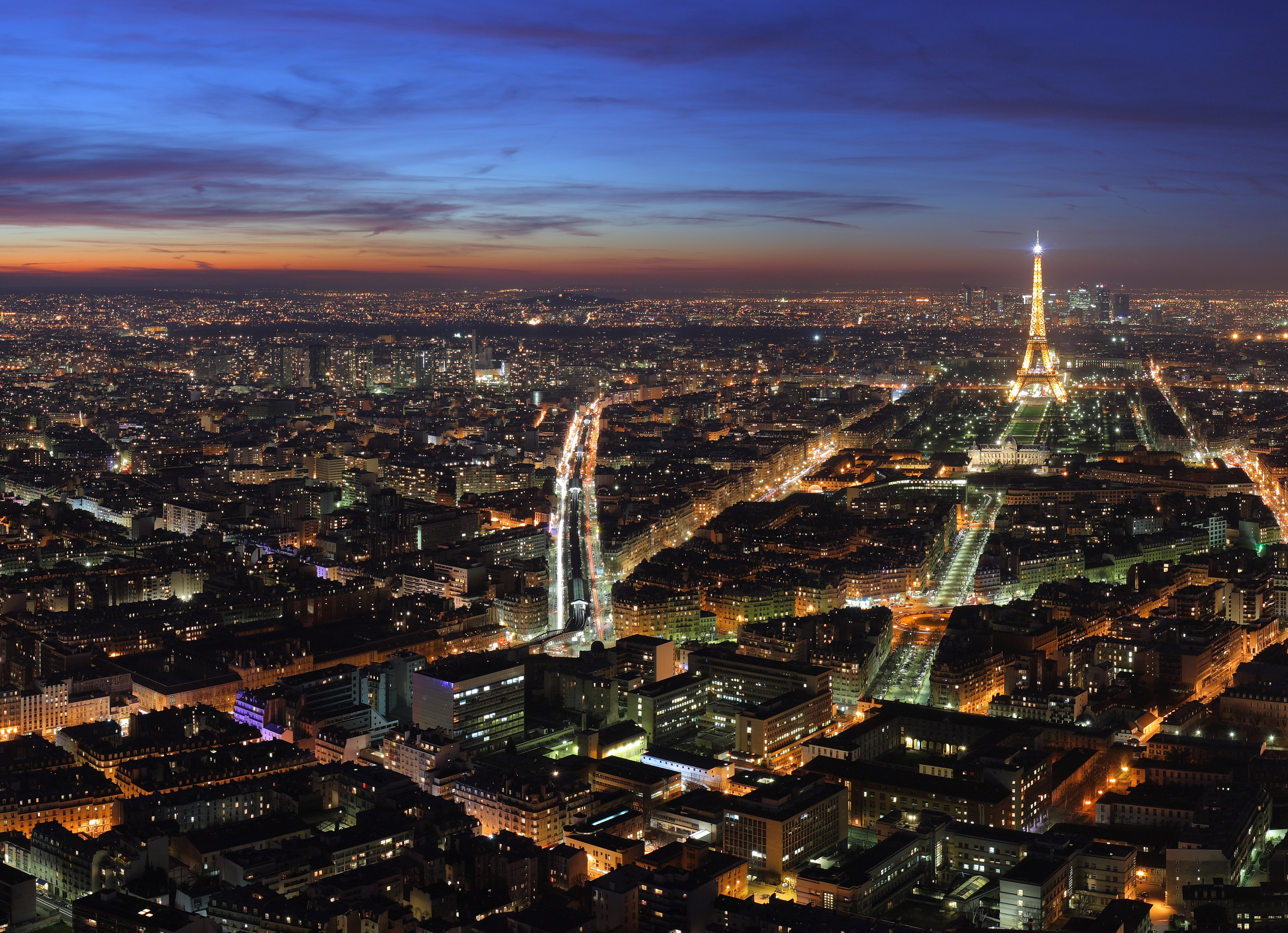 Crop of the panorama of Paris centered on the line 6 of the Paris's metro. This pano is made from only 4 pictures (compared to the 8 of the original panorama) and has a higher resolution.